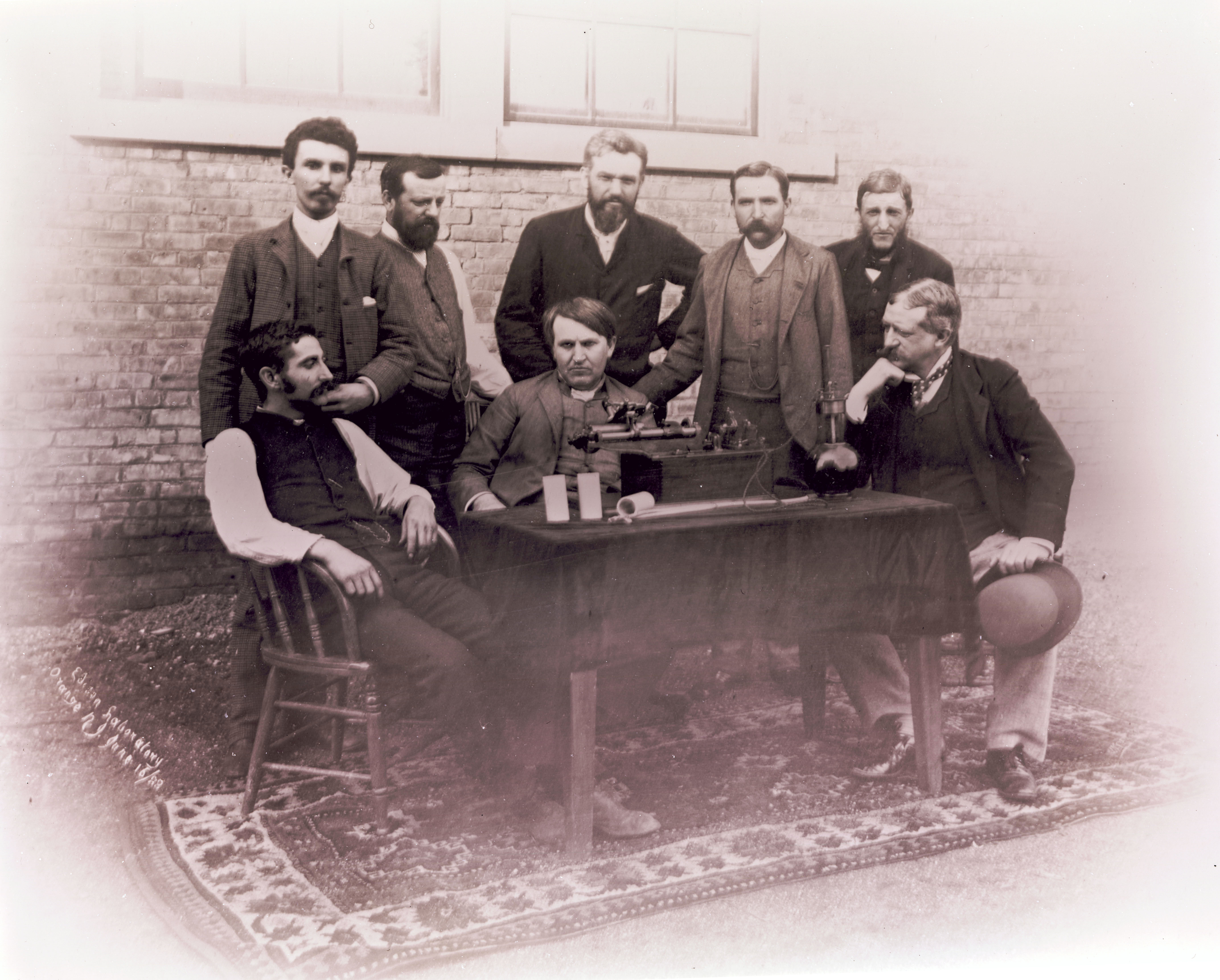 Thomas Edison posing with the group who perfected the phonograph, with the phonograph on the table. Edison is seated in the center, Theo Wangemann is standing behind him.